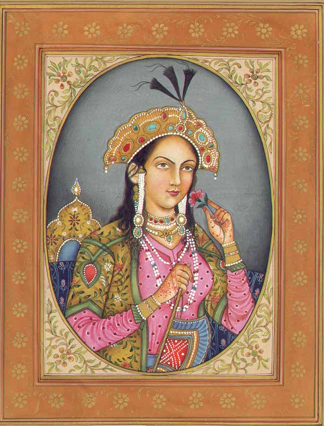 This is a Mughal painting depicting Mumtaz Mahal.